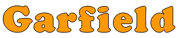 The logo of "Garfield"